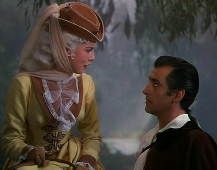 Janet Leigh & Stewart Granger in Scaramouche - trailer (cropped screenshot)